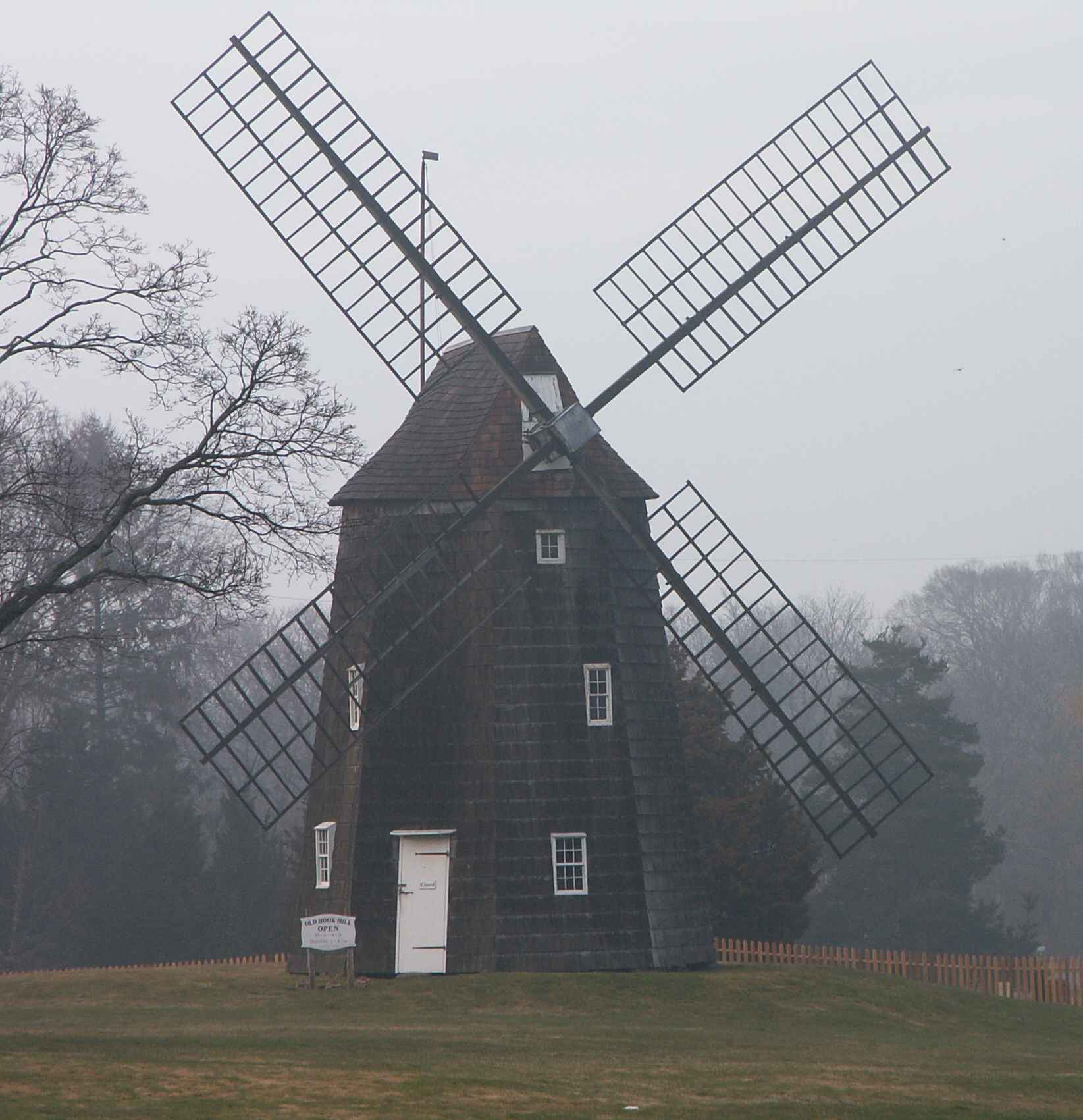 Hook Windmill in East Hampton which is symbol for the town. I took the photo in April 2006.